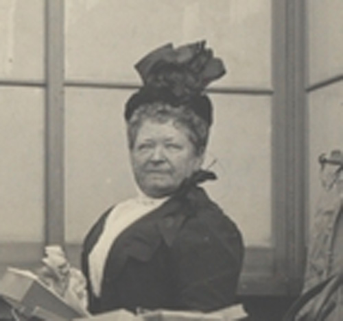 Lady Marian Allen, wife of Sir George Wigram Allen (1824-1885) owner of Toxteth Park, Glebe, NSW